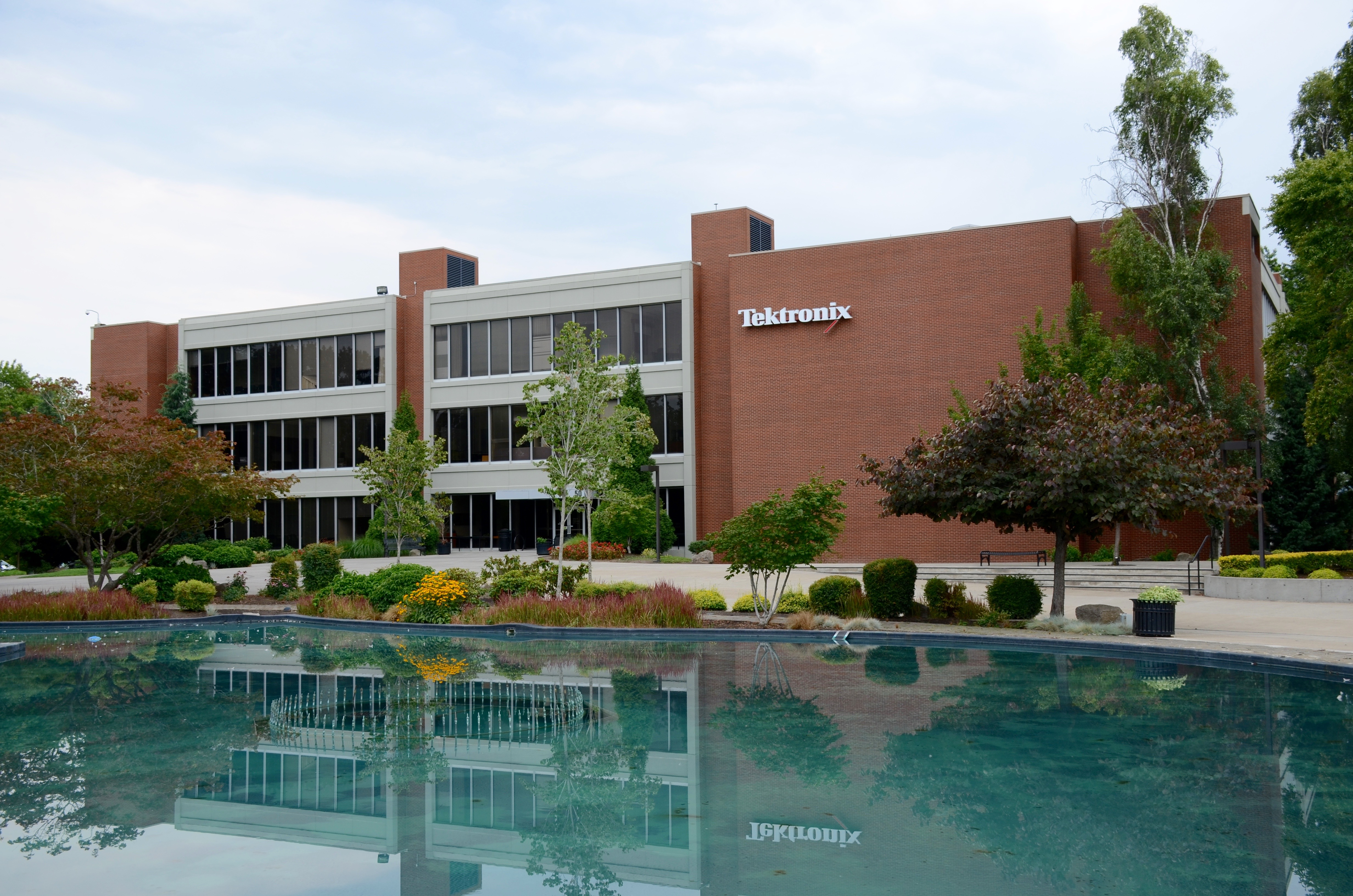 The headquarters of Tektronix, in Beaverton, Oregon, U.S. This is Building 50, the main administration building, at the multi-building complex.